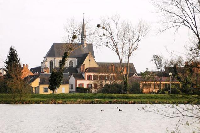 Vue de Salbris depuis la Sauldre.